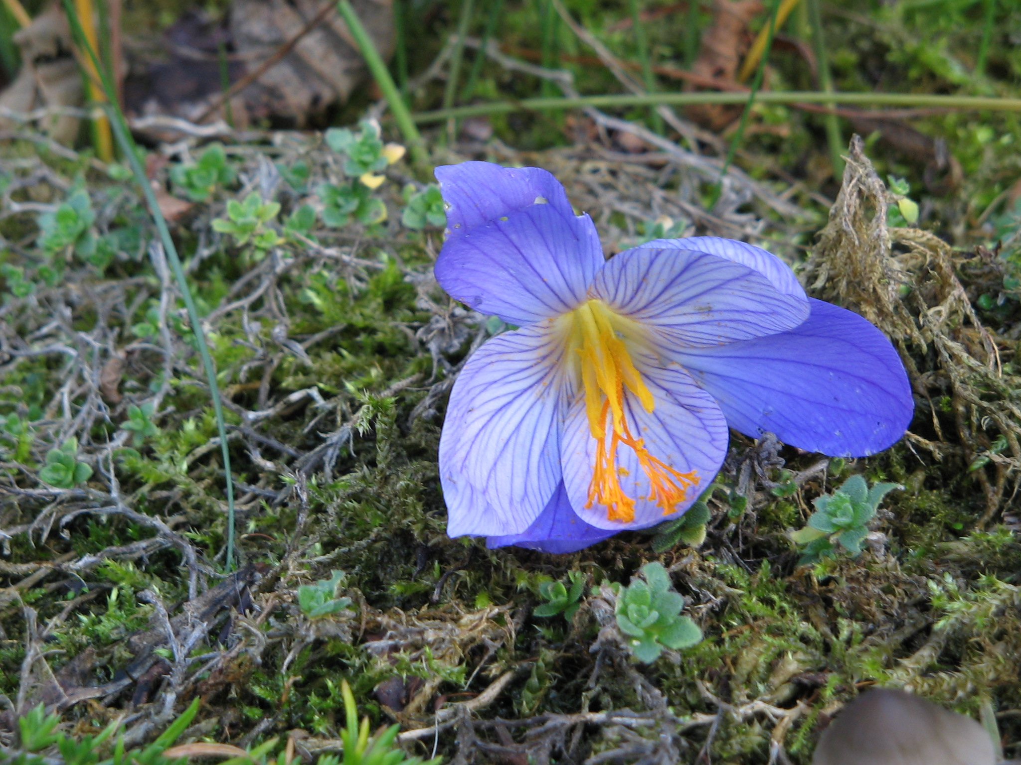 Crocus speciosus subsp. speciosus flower